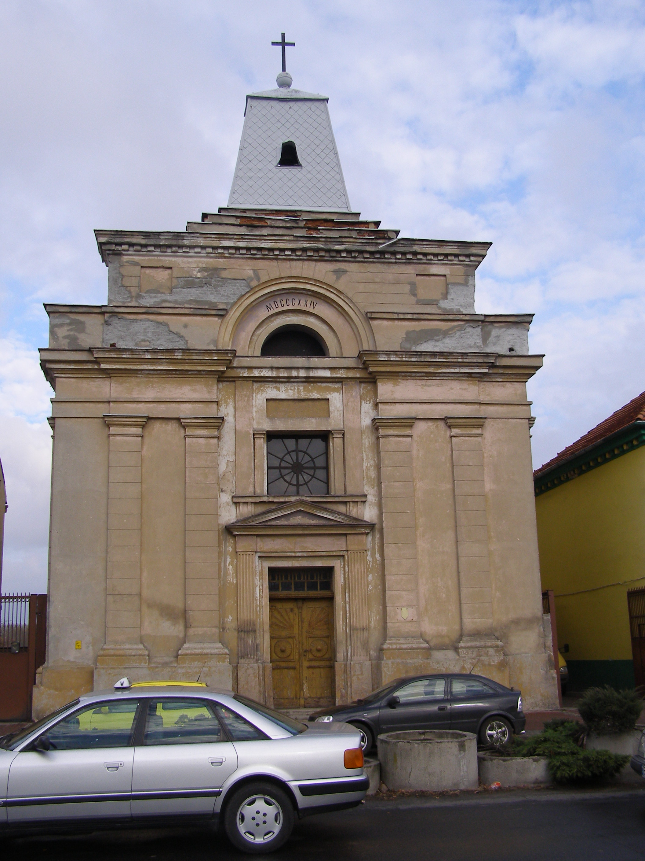 Protestant Church in Tomaszów Mazowiecki built 1829